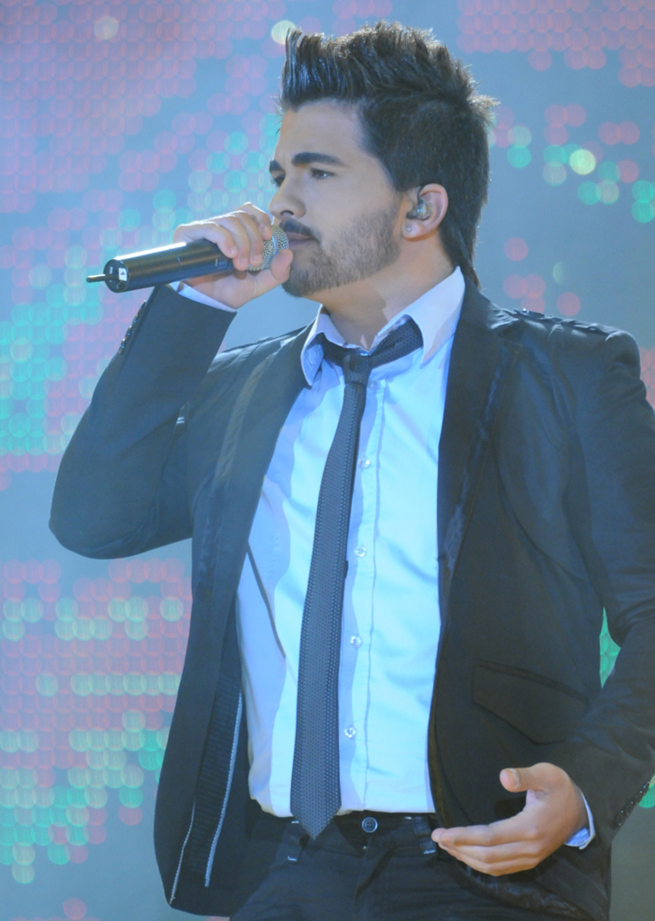 Marios Tofi performing live at Golden Stag Festival in 2009.